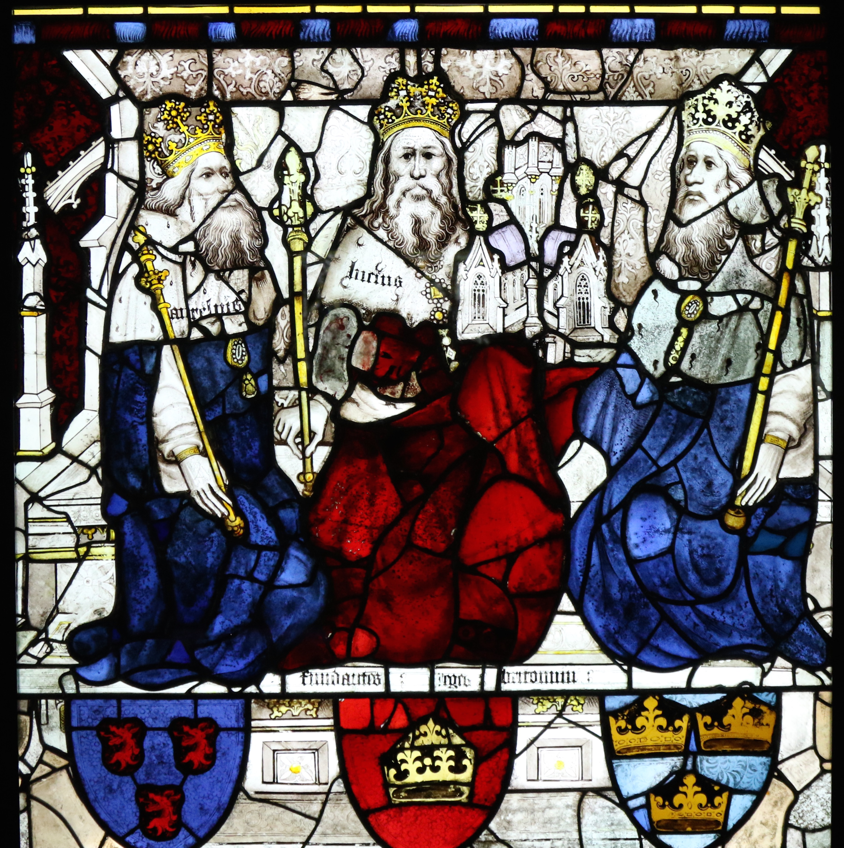 The other kings maybe Aurelius Ambrosius and Arthur. (Aurelius Ambrosius, Lucius of Britain, and Edmund the Martyr)